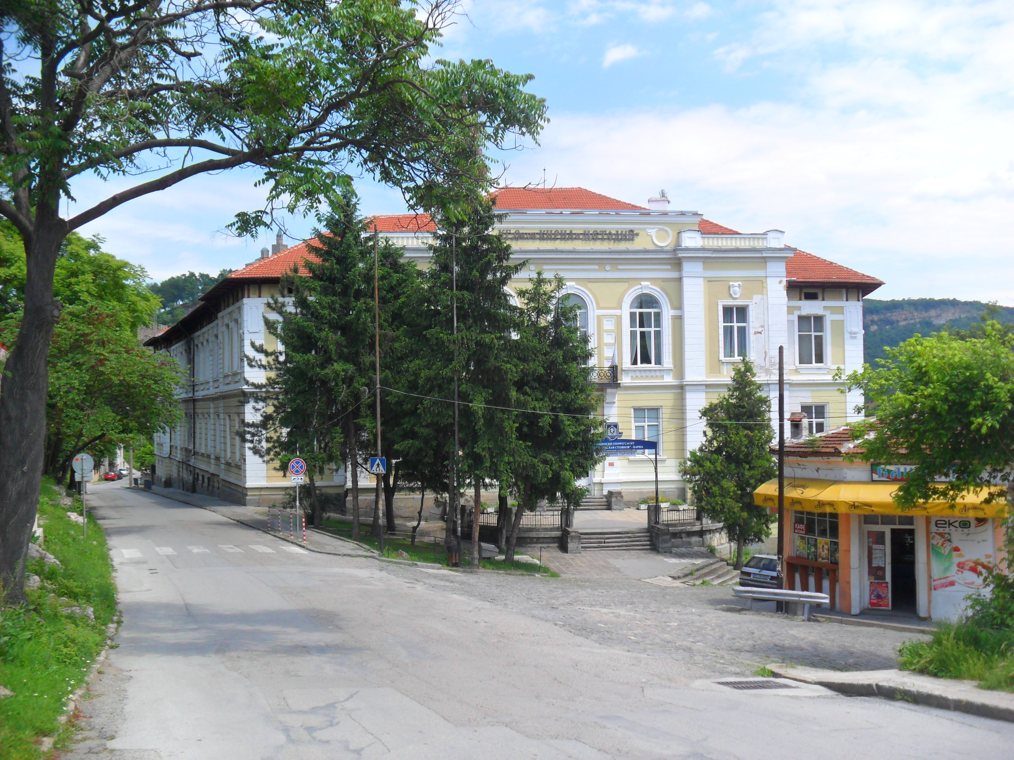 Today is Saint Cyril and Methodius`s school and Faculty of Medical University of Varna